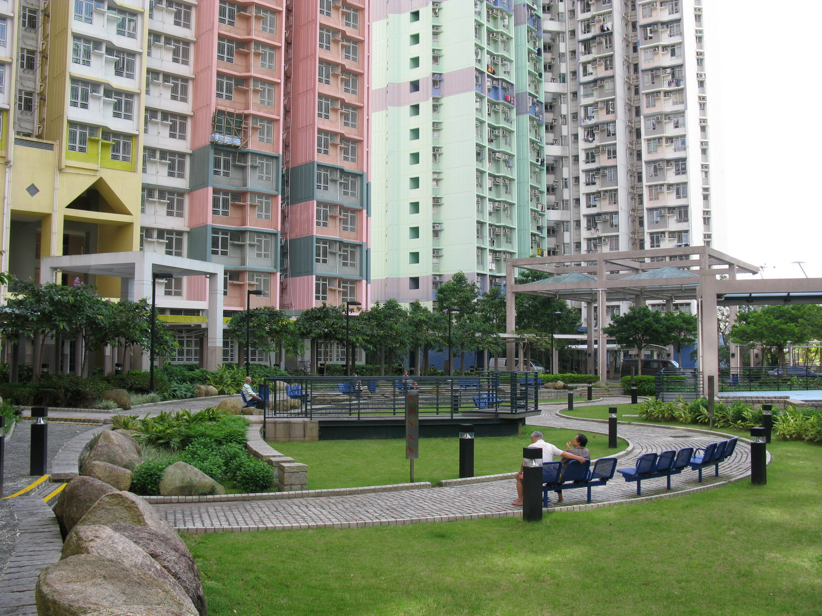 Sunken Garden located between Kam Fung Court & Chung On Estate